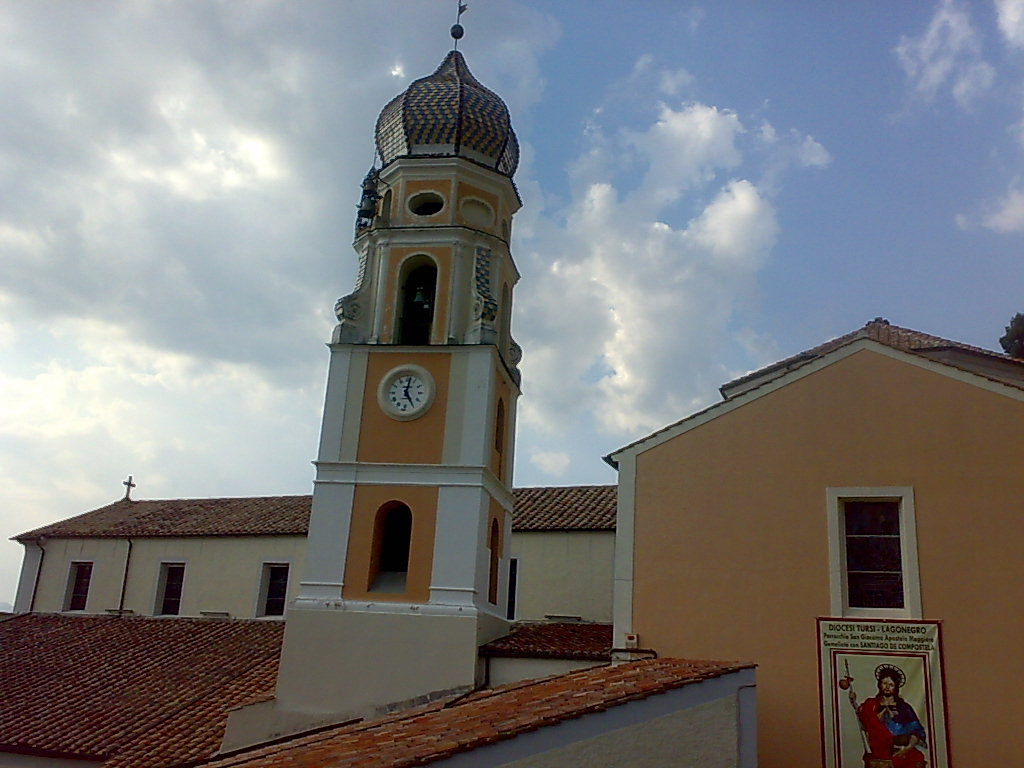 Bell tower of the Saint James The Apostle Church in Lauria